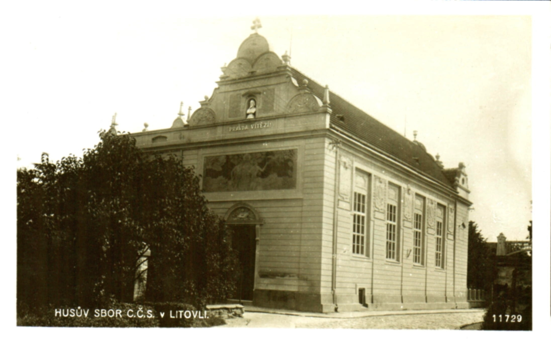 Historical picture of the Hussite Church in Litovel.